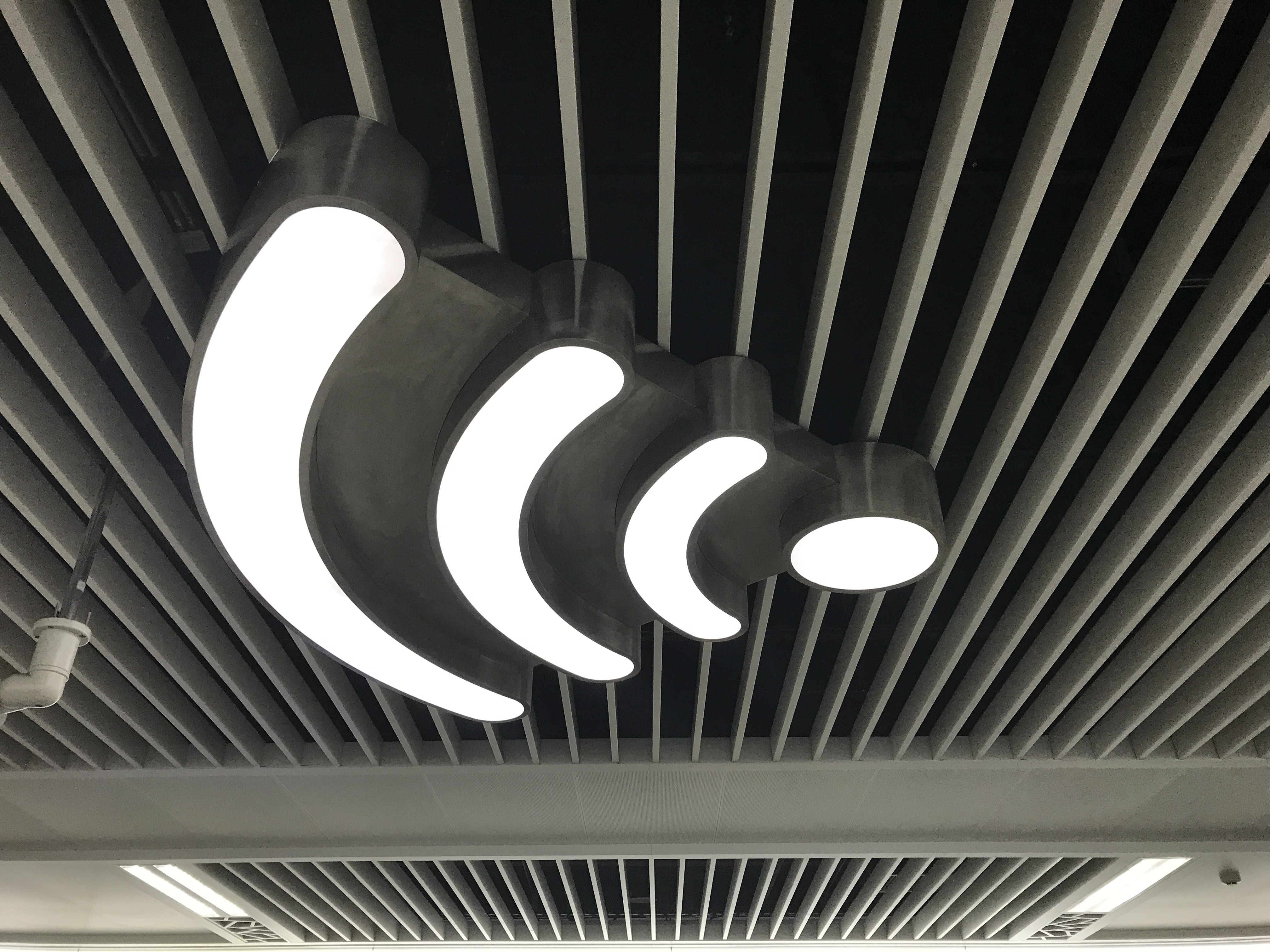 Decoration in the ceiling of the platform in Yushuang Road Station, Chengdu Metro